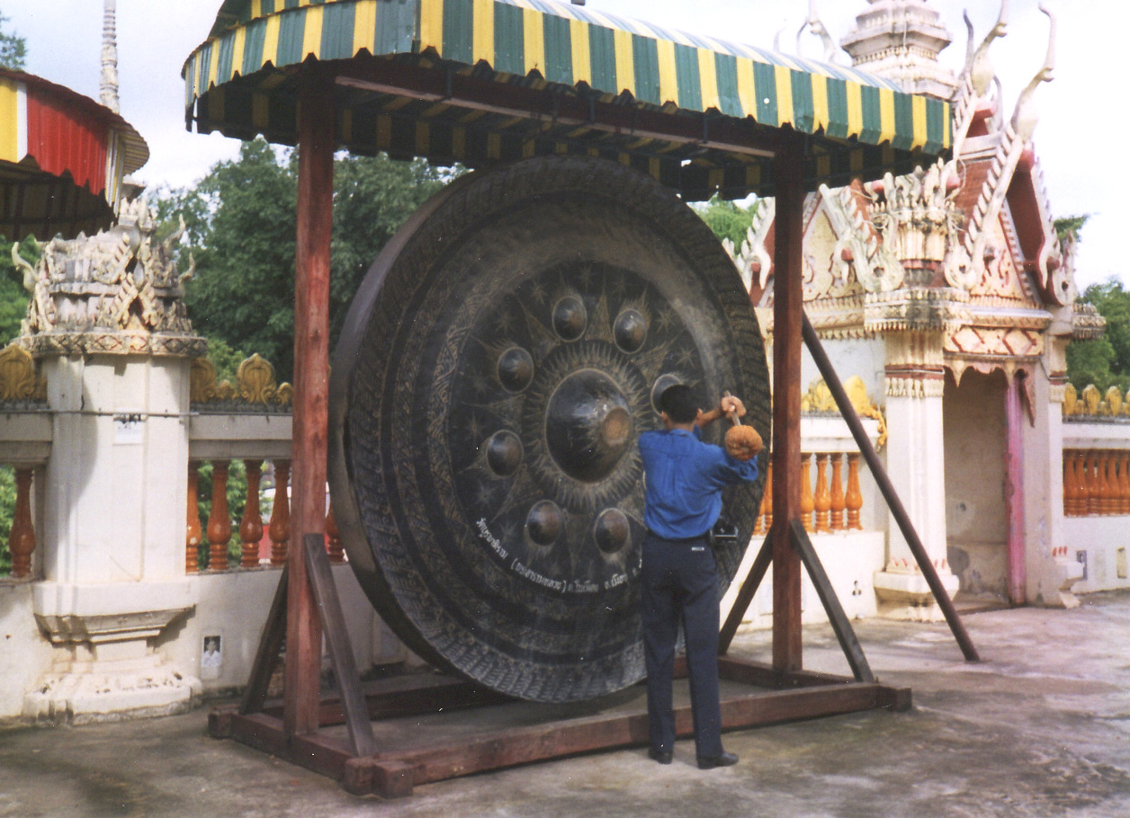 A very large Thai gong at a temple in Roi Et, Isan, Thailand. Photo taken summer 1998. Self-made photo.